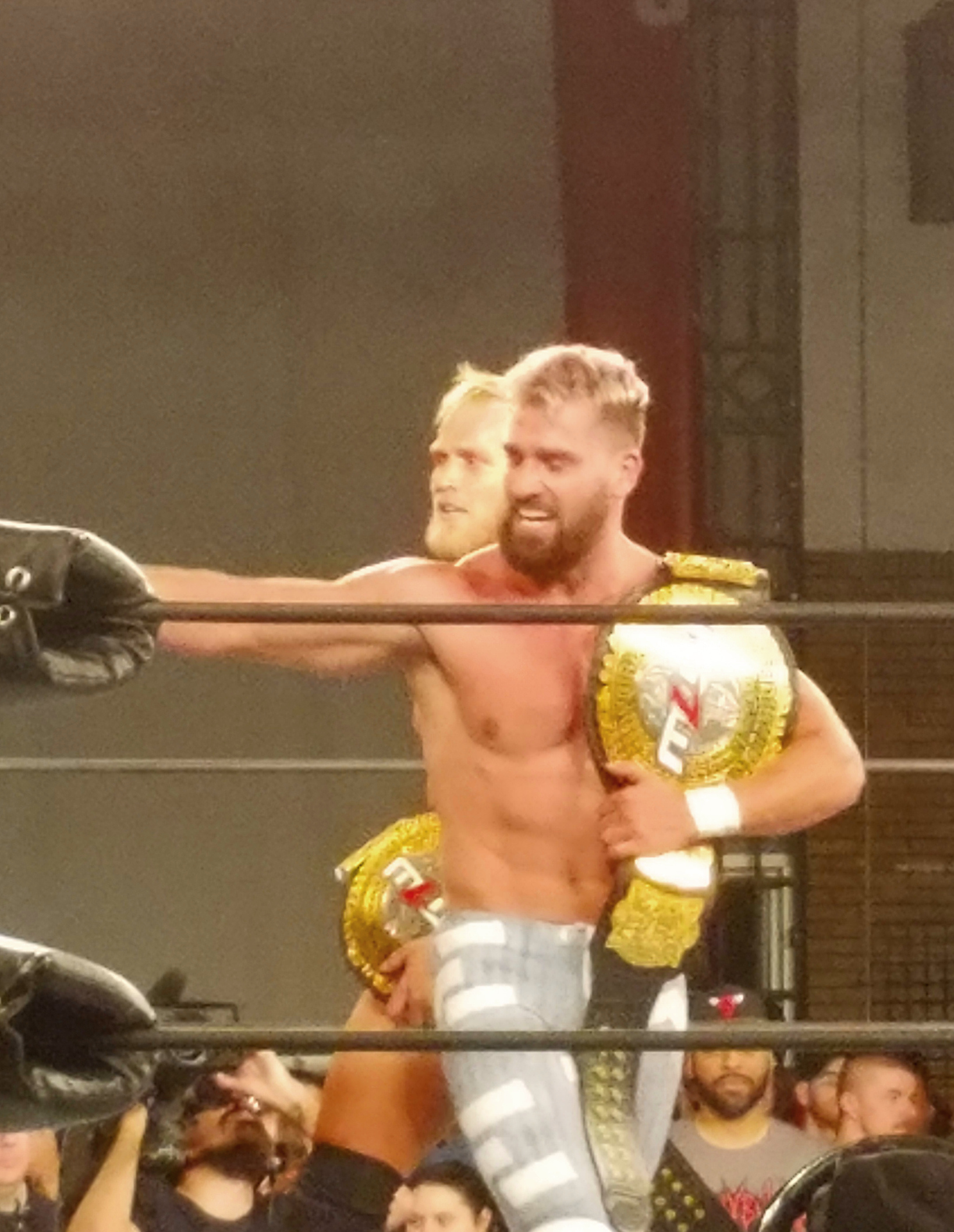 Ross Von Erich (foreground) and Marshall Von Erich (behind) celebrate winning the MLW World Tag Team Championship from The Dynasty (MJF and Richard Holliday) at MLW Saturday Night SuperFight on November 2, 2019 at Cicero Stadium in Cicero, Illinois.